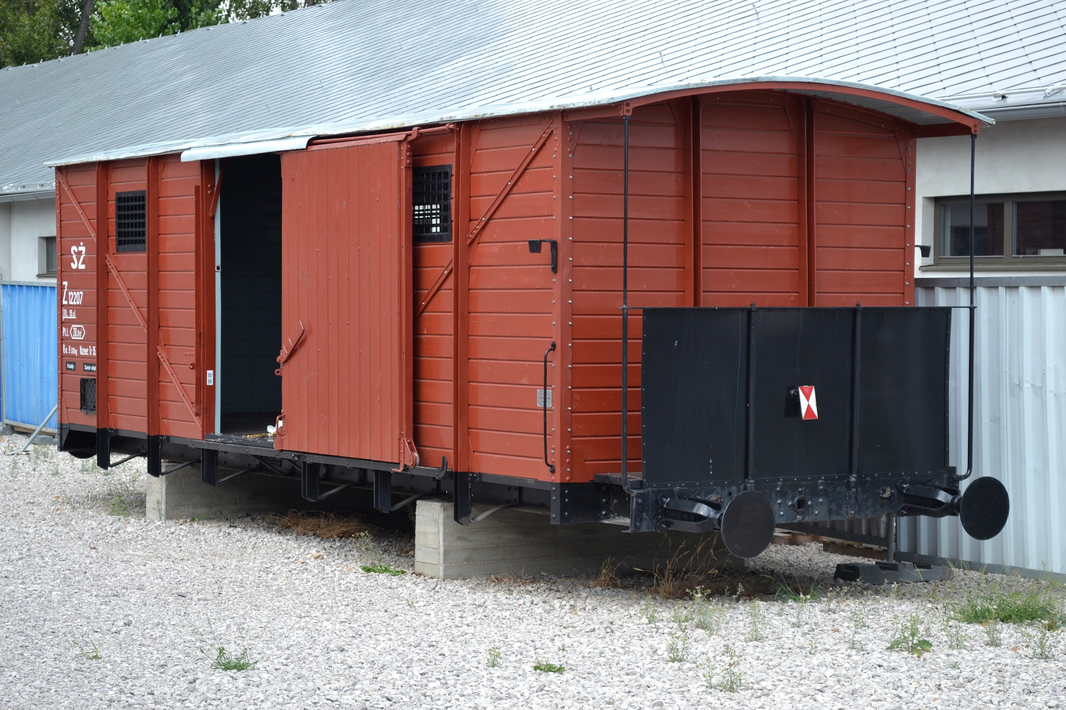 Preserved train car used to deport Slovak Jews to German-occupied Poland. SŽ stands for Slovenské Železnice (Slovak Railways).[1]